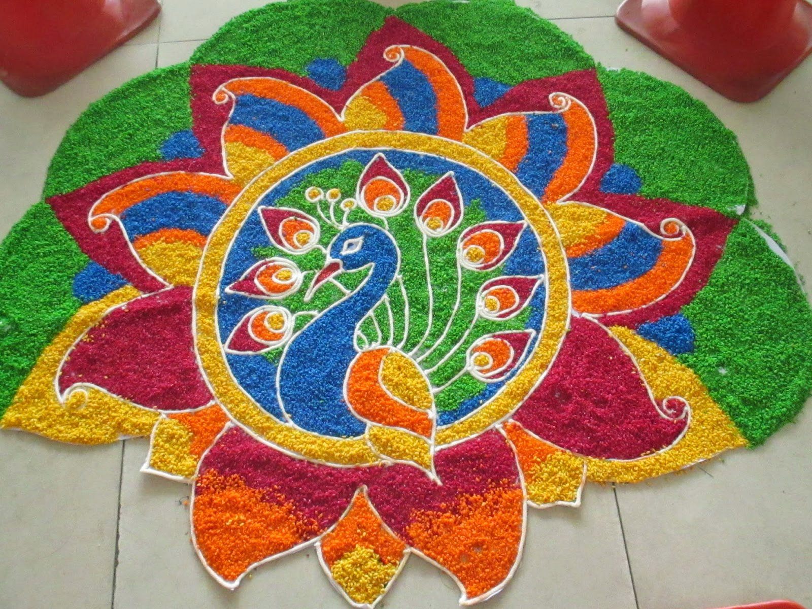 Puthandu is the traditional Tamil new year. The calendar and day migrated from Indian Tamils to Sri Lanka and southeast Asia in the 1st millennium CE.